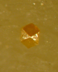 A lovely attractive orange yellow Walfordite (0.7 mm)laying on white Alunite. This xx shows an attractive cube modification resembling a sort of papillon shape. Extremely difficult to immortalize without combine ZM, nevertheless it gives a hint of how looks like the single xx. From Wendy pit, Tambo, El Indio deposit, Elqui Province, Coquimbo Region, Chile - FOV: 2x2 mm